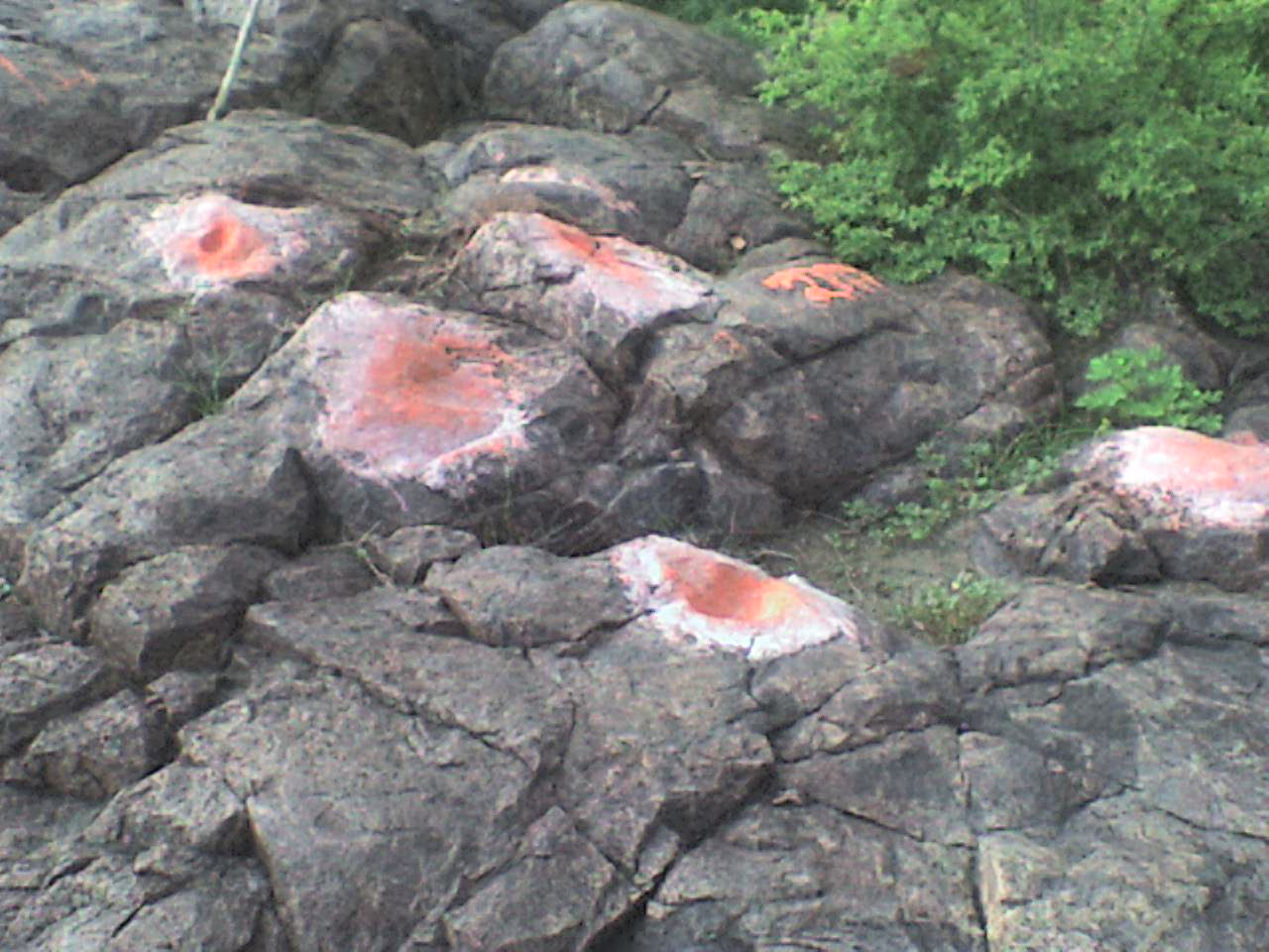 Foot Prints of Lord Hanuman in 'Anadi Kalpeshwar Mahadev Temple'. This Temple is more than 5000 years old and is situated in Alot (Dist. Ratlam, M.P., India)